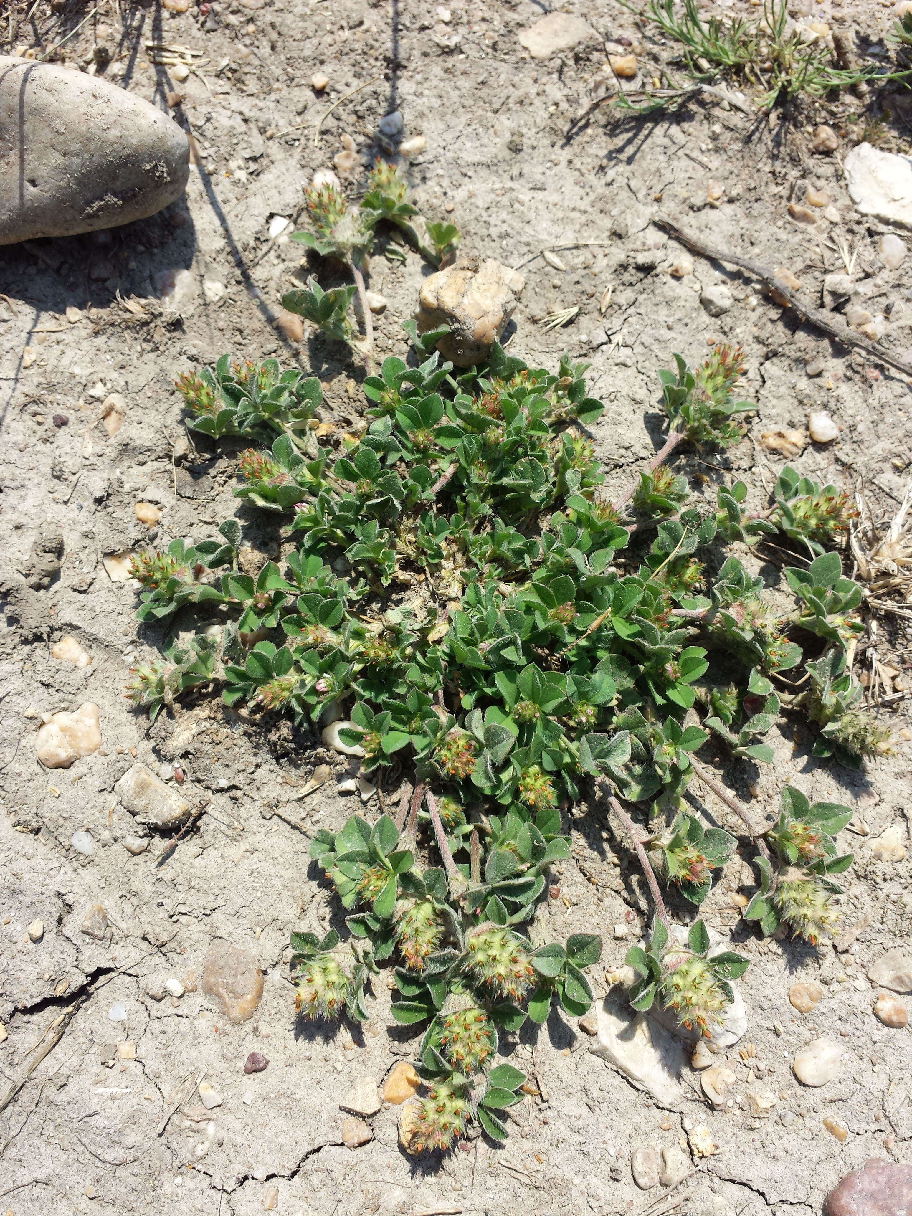 Habitus Taxonym: Trifolium striatum ss Fischer et al. EfÖLS 2008 ISBN 978-3-85474-187-9; det. Gergely Király 2015-06-07 Location: Dolomite hills to the south of Öskü, Veszprém County, Hungary - ca. 200 m a.s.l. Habitat: sandy area